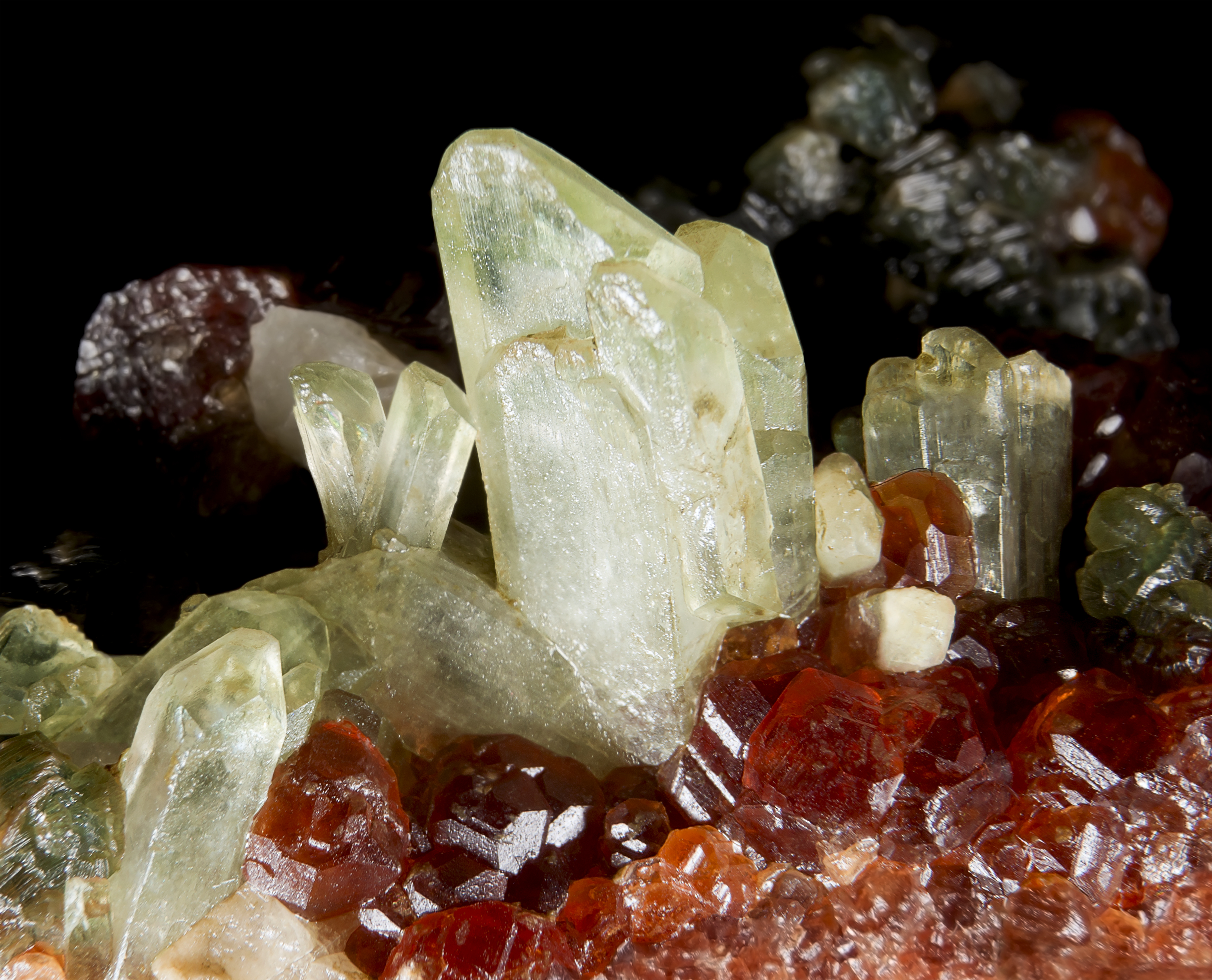 Diopside Hessonite Clinochlore Locality: Bellecombe, Châtillon, Aosta Valley, Italy Size : prismatic green crystal of diopside up to 1.16 cm